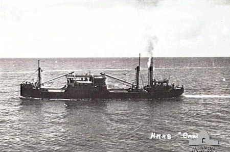 The powered lighter HMAS Carroo at sea